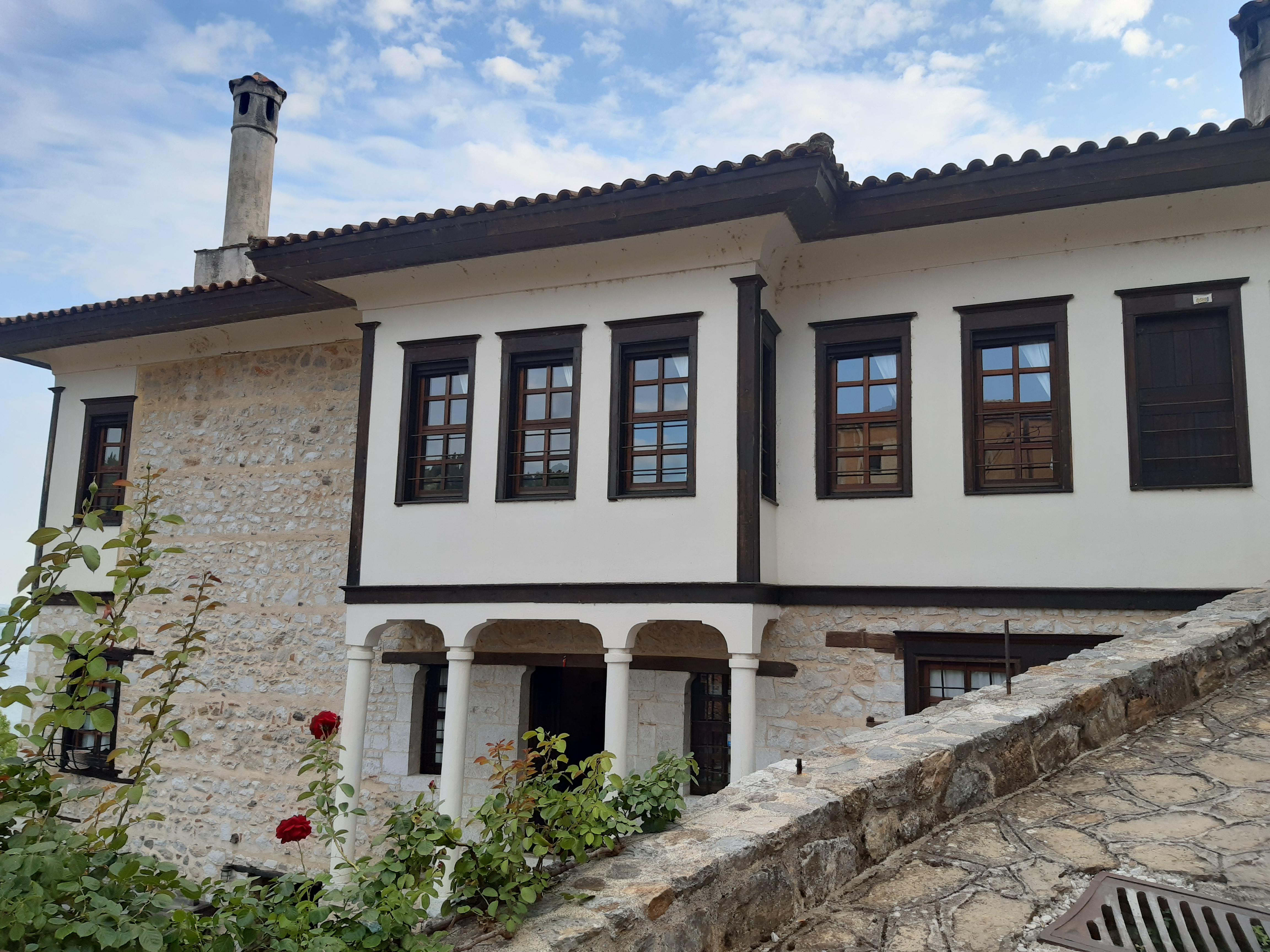 Vergoulas Mansion (1854)